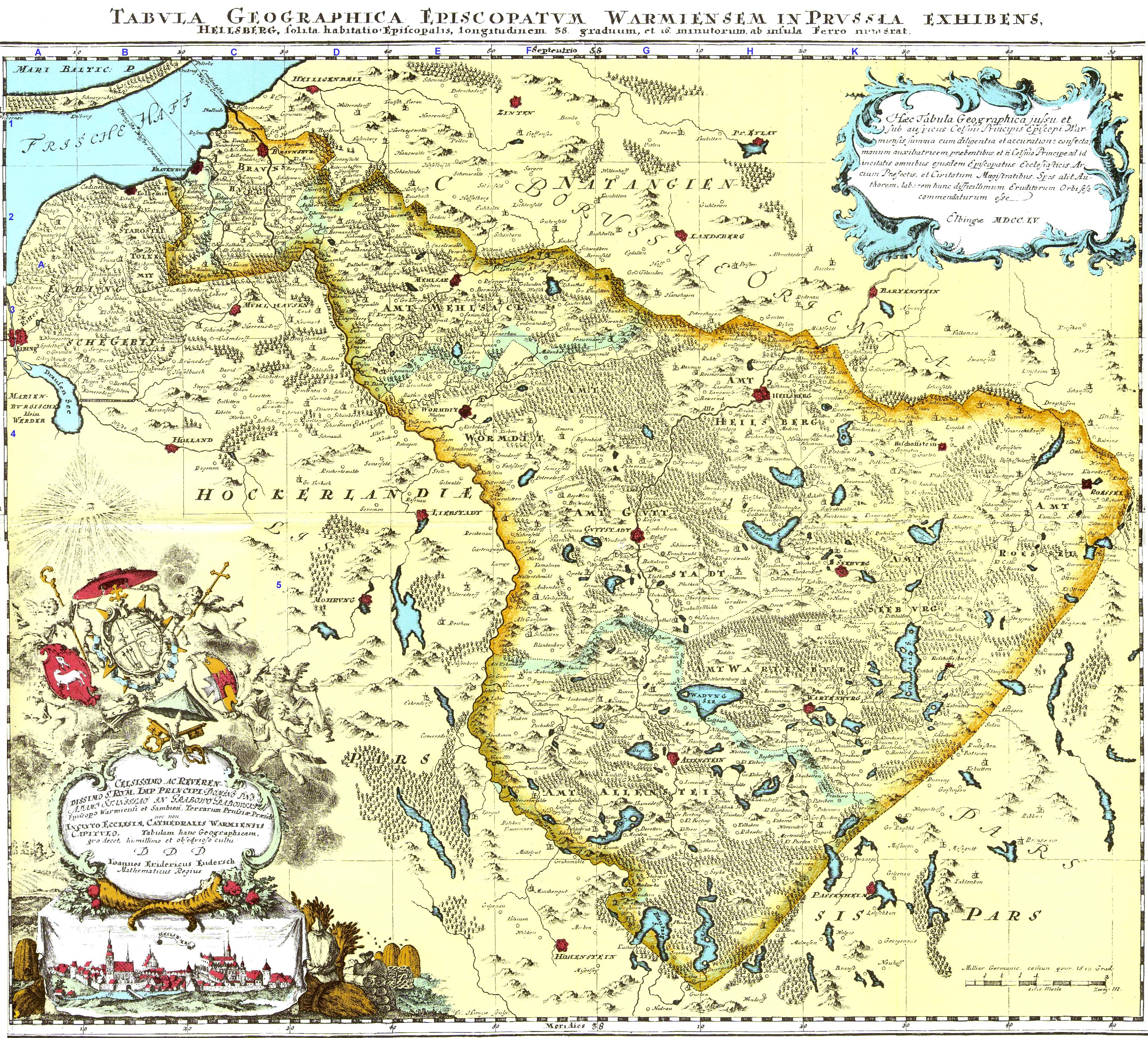 Map of the bishopric of Warmia in Prussia, with modern day Polish names added to it.